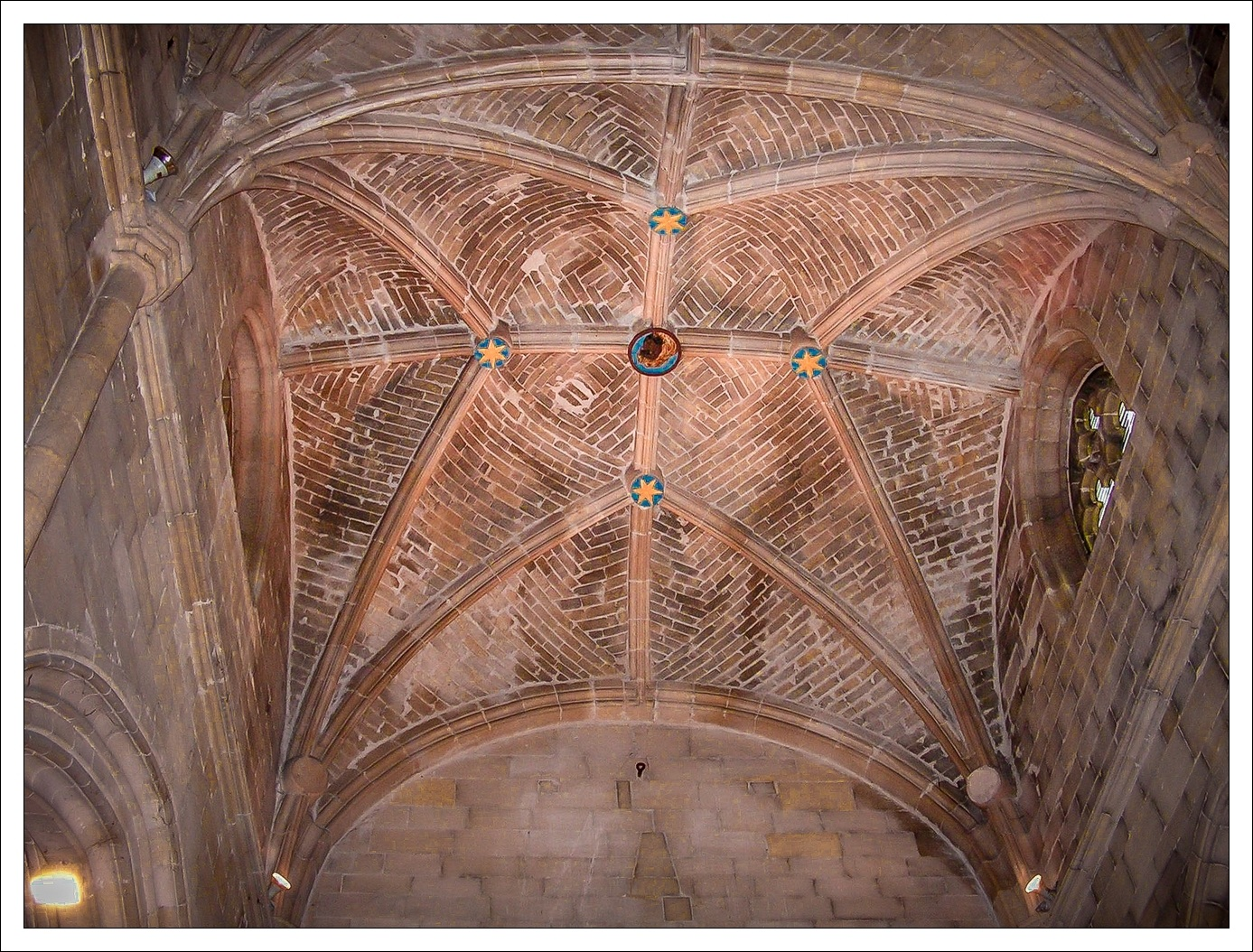 Stergewelf in de St Aldegondiskerk in As